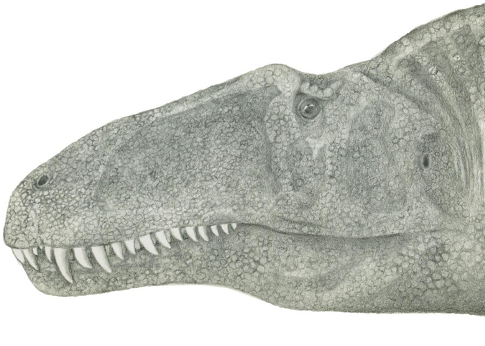 Flesh reconstruction of head of Acrocanthosaurus atokensis.